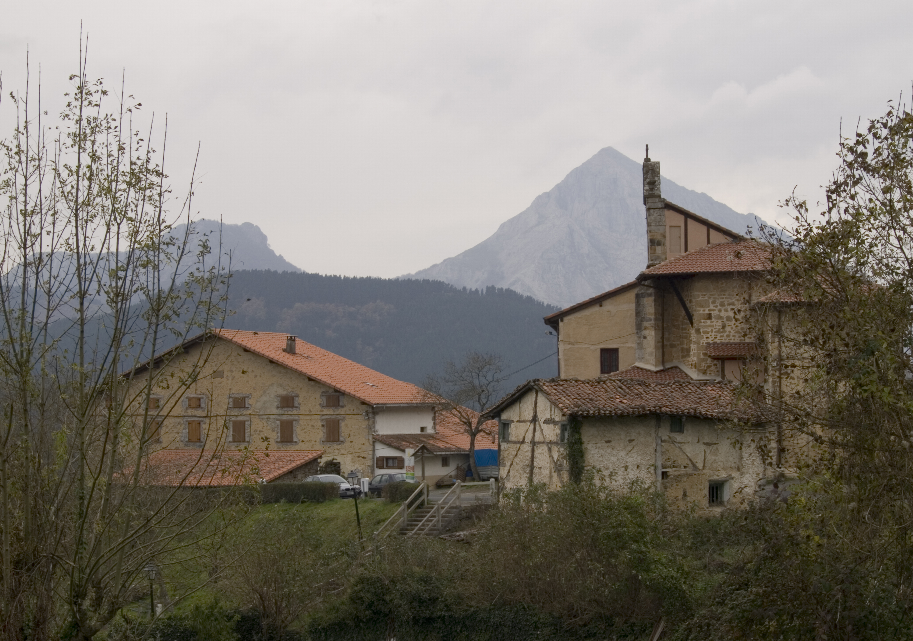 Udala neighbourhood in Arrasate-Mondragón.